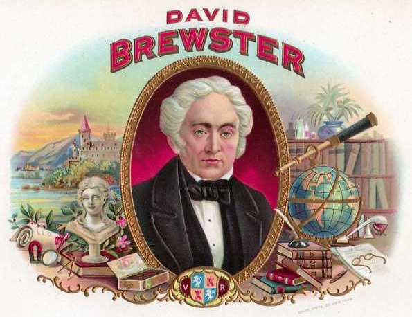 Inner picture of a cigar box showing the portrait of David Brewster. Size: 6"x9.5"